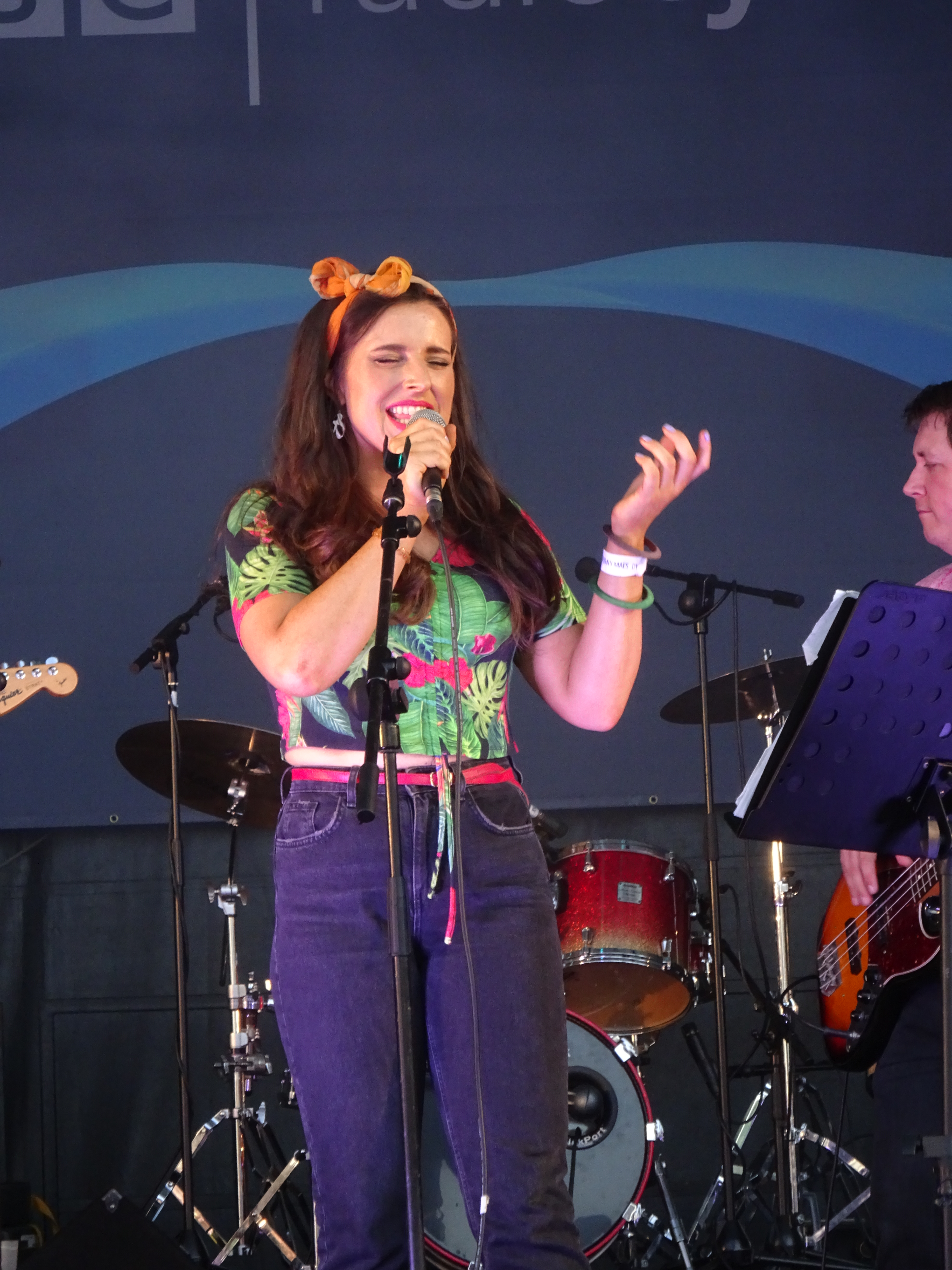 Alys Williams at Eisteddfod Caerdydd, 2019.